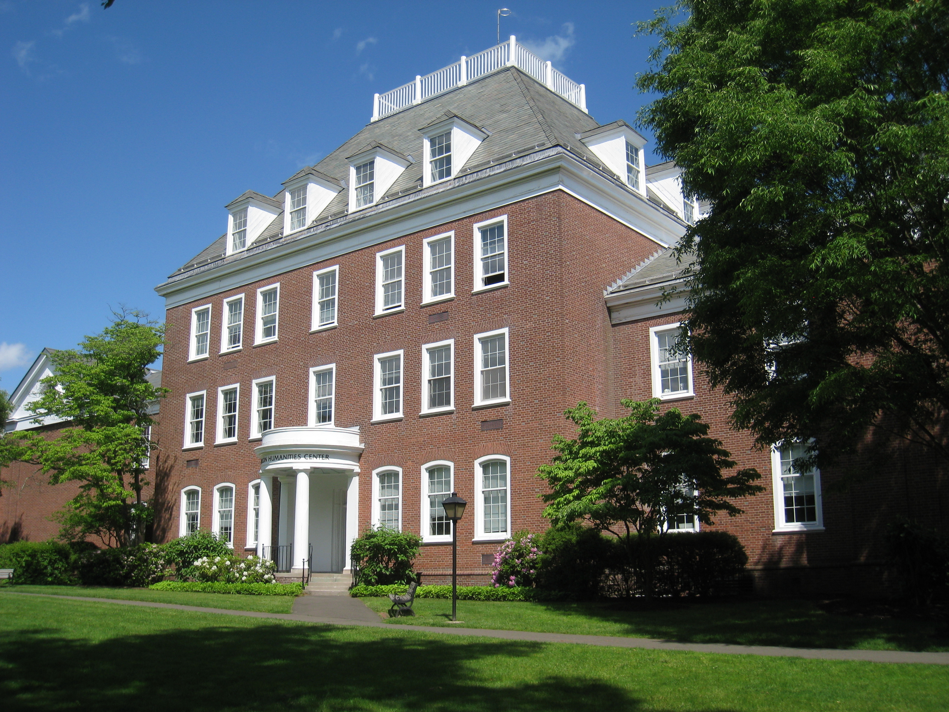 Paul Mellon Humanities Center - Choate Rosemary Hall, Wallingford, Connecticut, USA. Architect Charles F. Fuller, 1938.